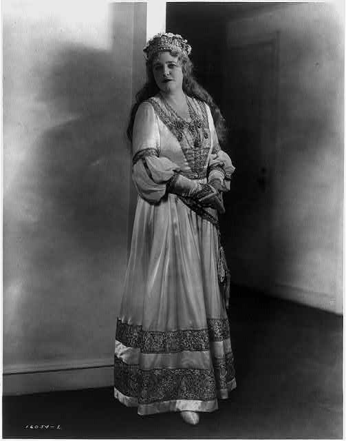 German soprano Lotte Lehmann (1888–1976) starring in Richard Wagner's 1868 opera Die Meistersinger von Nürnberg